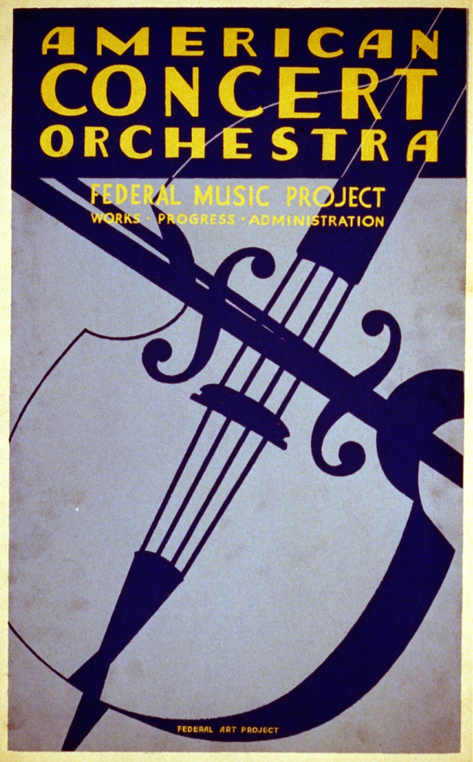 Title: American concert orchestra--Federal Music Project--Works Progress Administration Abstract: Poster for Federal Music Project presentation of American Concert Orchestra, showing a cello. Physical description: 1 print on board (poster) : silkscreen, color. Notes: Work Projects Administration Poster Collection (Library of Congress).; Attributed to Carken.